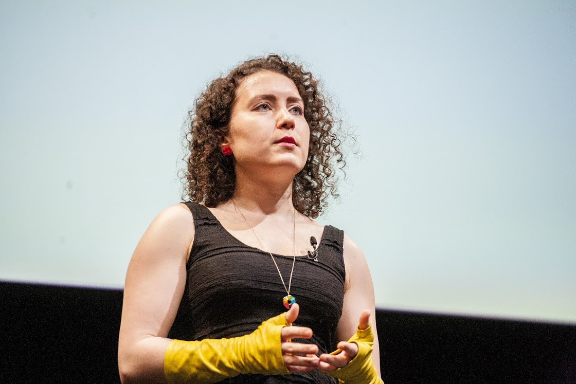 Maria Popova at TYPO San Francisco 2014